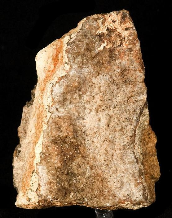 Hemimorphite, Smithsonite Locality: Granby Field, Tri-State District, Newton County, Missouri, USA (Locality at ) Size: 9.5 x 7.0 x 4.8 cm. Gemmy, honey-colored hemimorphite crystals richly cover the upper portion of the matrix and drusy hemimorphite covers the rest on this classic, old-time specimen from the Granby Field, Missouri of the famed Tri-State District. The matrix is comprised of tan "dry-bone" smithsonite and massive hemimorphite. Not pretty to look at, but certainly very highly desirable, old-time material from this well-known locality. Ex George Feist Collection and according to the accompanying label dates to 1925-27.